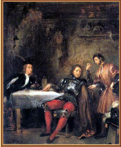 A scene from Quentin Durward by Sir Walter Scott